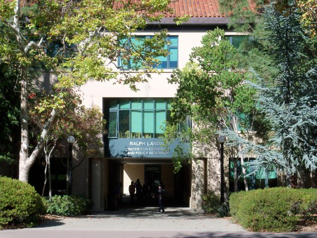 Ralph Landau bldg at Stanford University, housing the Economics Department. Built circa 1994